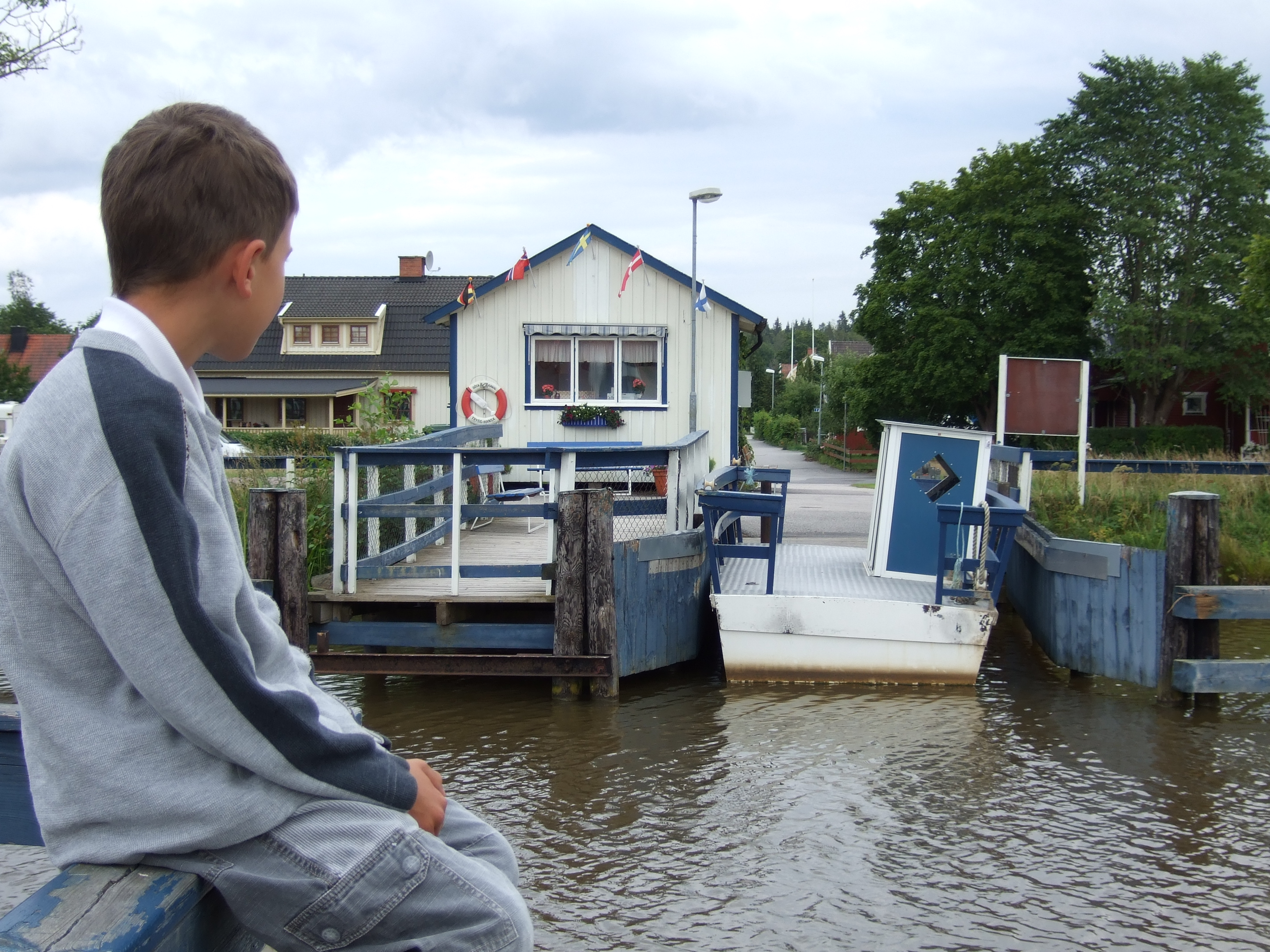 This ferry in Töreboda, Sweden, lays claim to being the smallest ferry in the world. It has a capacity of 4 persons.